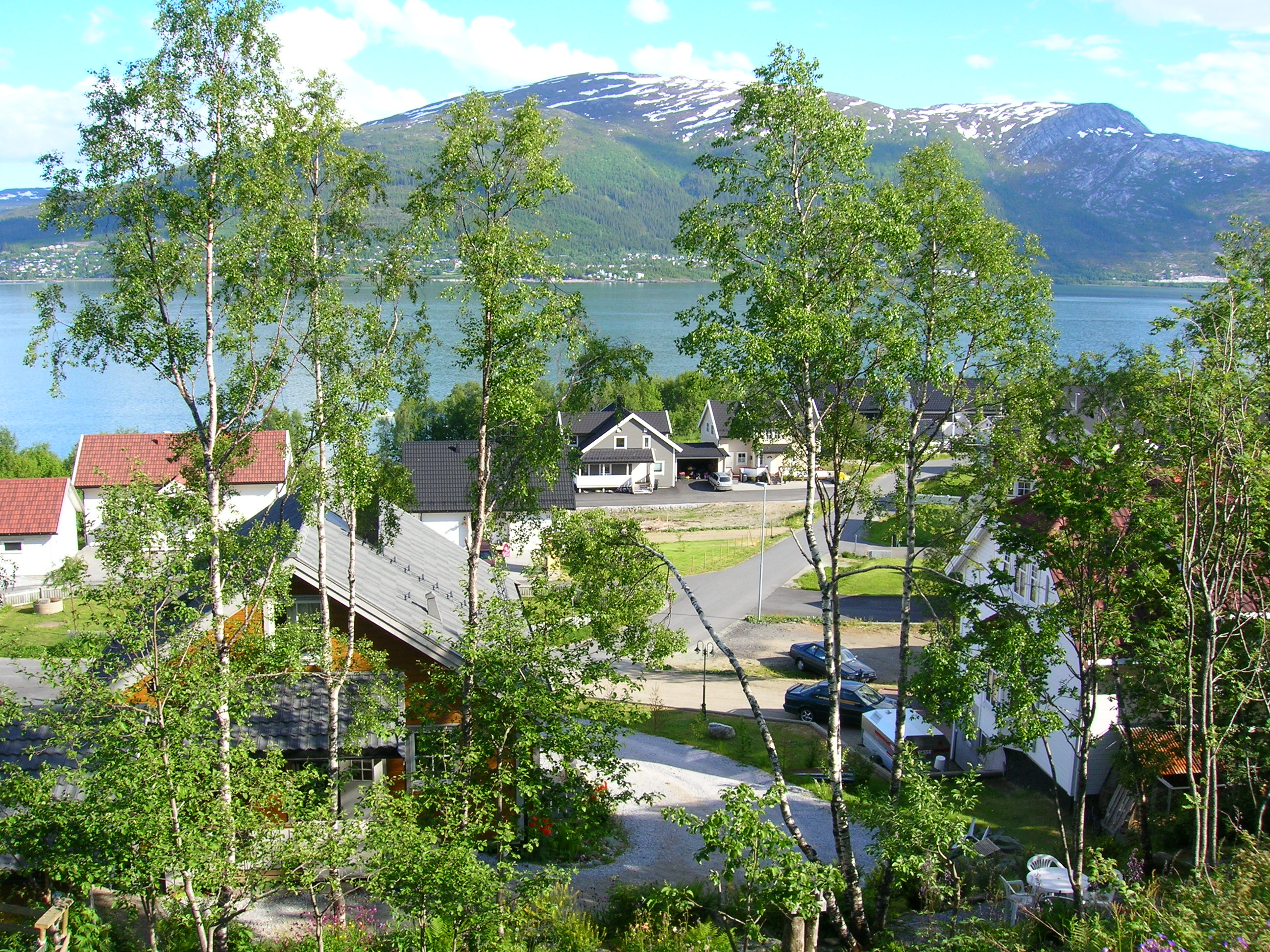 The buildings at Alterneset, Alteren in Rana, Nordland, Norway, are mostly private homes. Photo June 21, 2007 with a Nikon Coolpix 5600 5,1 Megapixel camera.